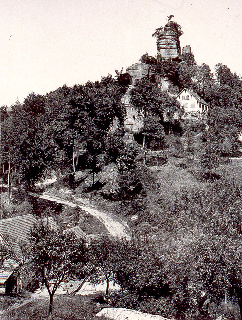 The château du Vieux-Windstein, Alsace